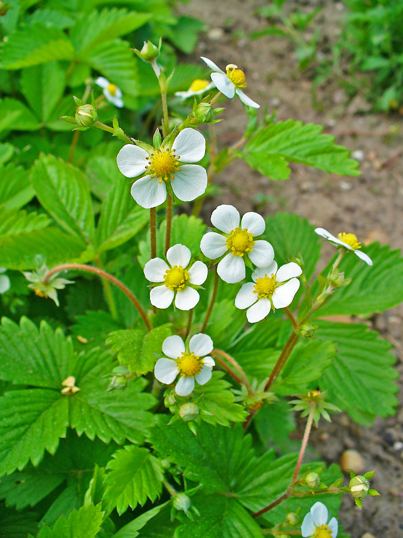 Fragaria vesca, Rosaceae, Woodland Strawberry, Fraises des Bois, Wild Strawberry, European Strawberry, flowers; Botanical Garden KIT, Karlsruhe, Germany. The fresh, ripe fruits are used in homeopathy as remedy: Fragaria vesca (Frag.)